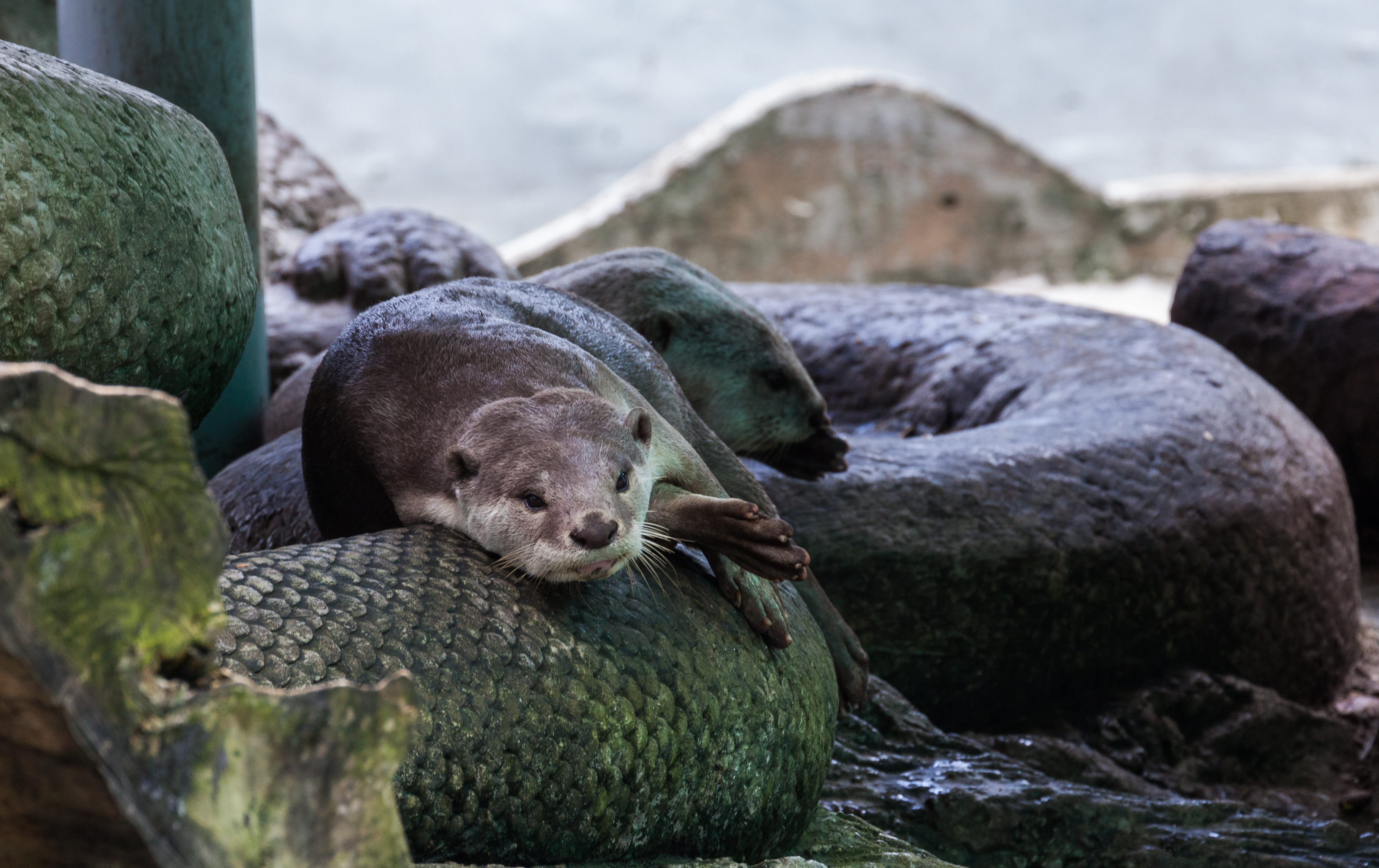 Smooth-coated otter (Lutrogale perspicillata), Ho Chi Minh City Zoo, Vietnam